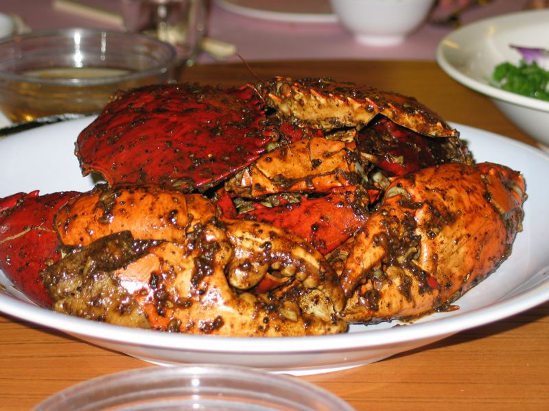 Black Pepper Crab